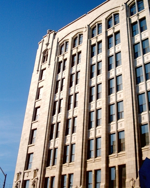 Whalen Building in Thunder Bay, Ontario